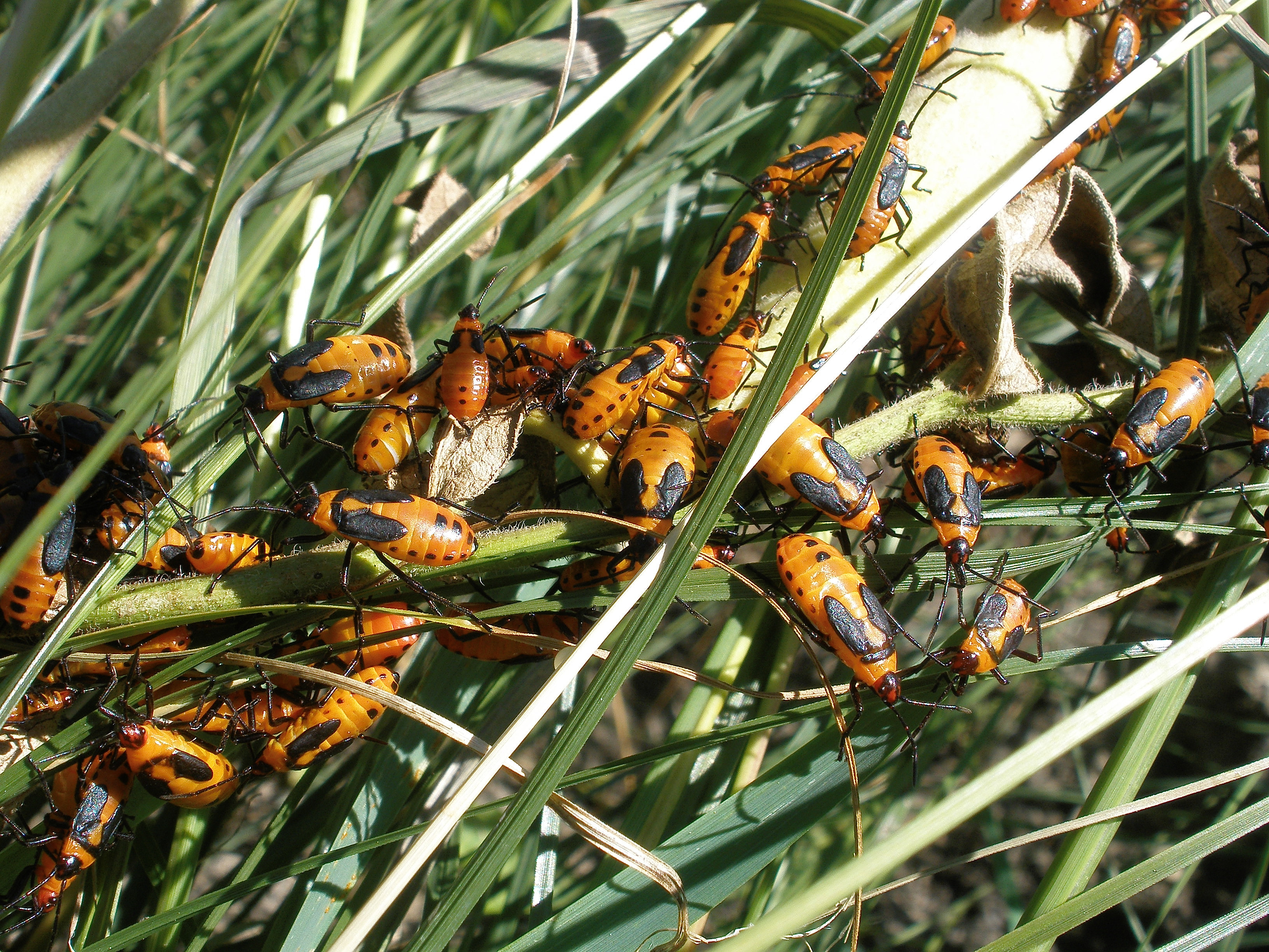 Young milkweed bugs (Oncopeltus fasciatus) gather on milkweed seedpods